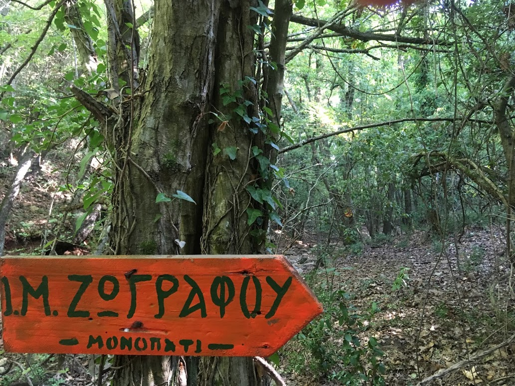 Path to Zografou Monastery